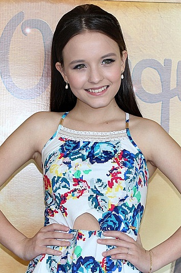 Larissa Manoela at The Little Prince Premiere.